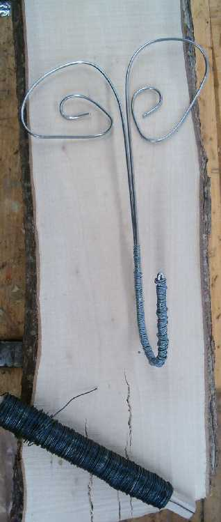 Hook of steel wire made by pupil in luffar-sloyd